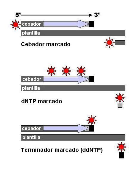 Created by Abizar Lakdawalla.